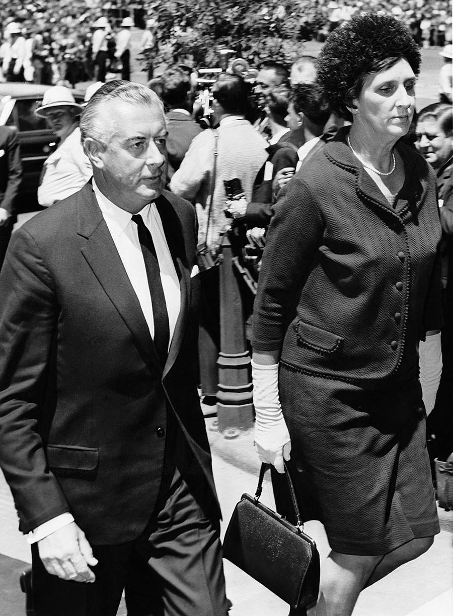 Gough and Margaret Whitlam walking into the memorial service for Harold Holt in Melbourne.